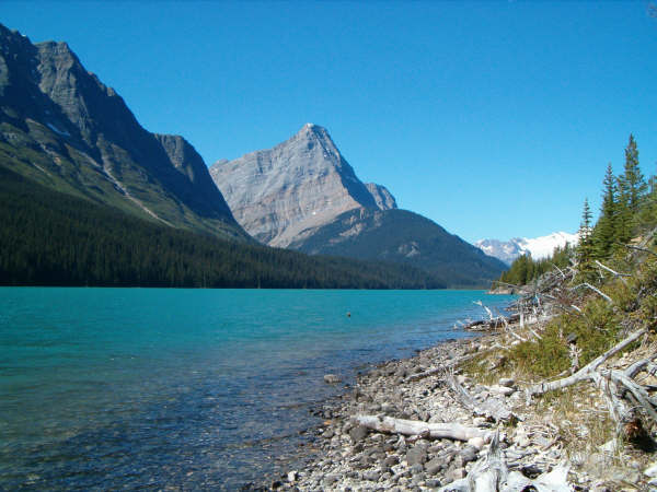 Erik Lizee